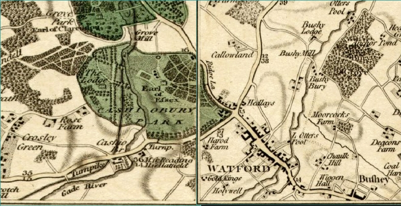 Map of Watford and Cassiobury Park by John Cary. Detail from Cary's Actual Survey of the Country Fifteen Miles Round London